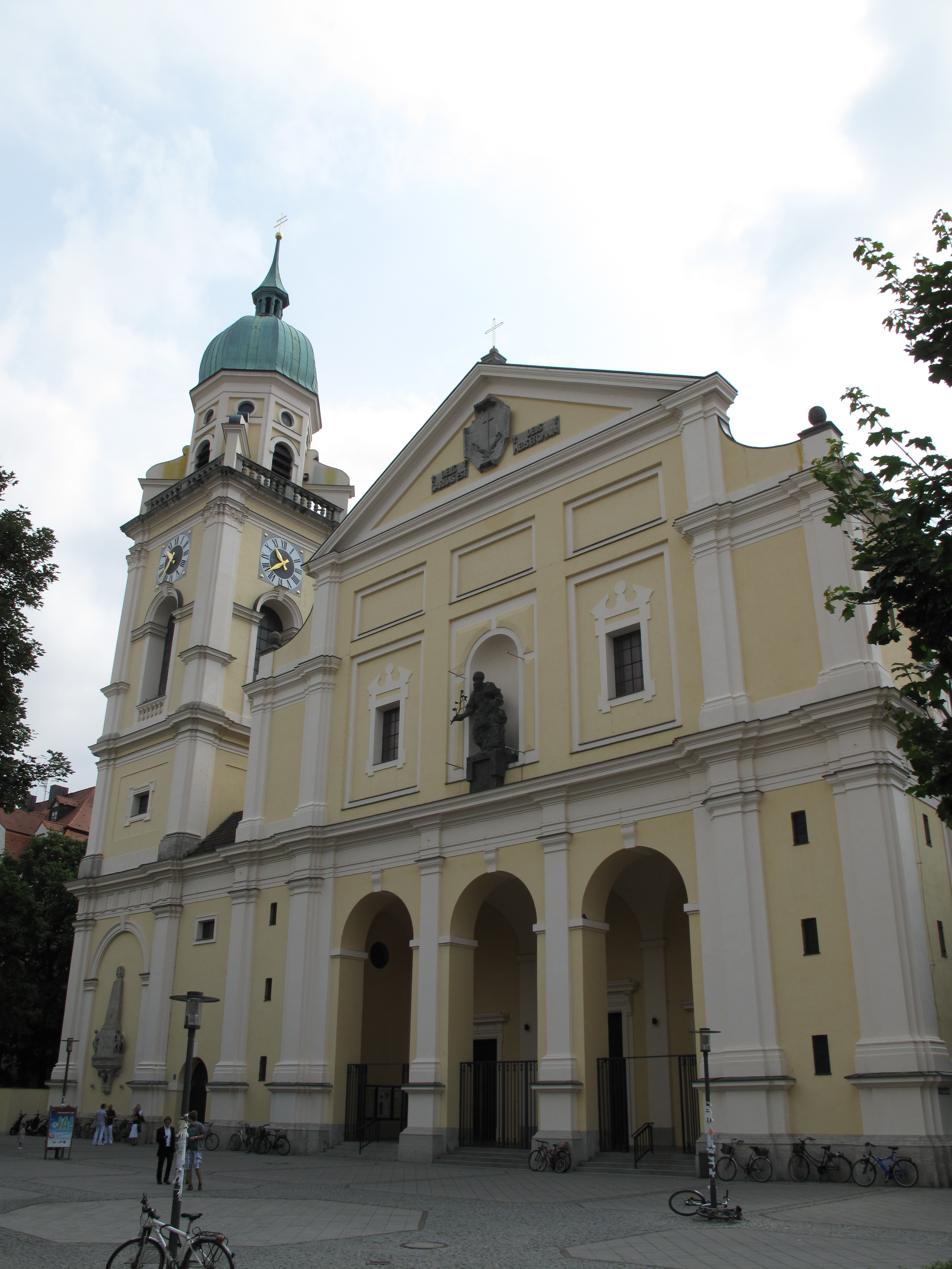 The church St. Joseph in Munich (Maxvorstadt).